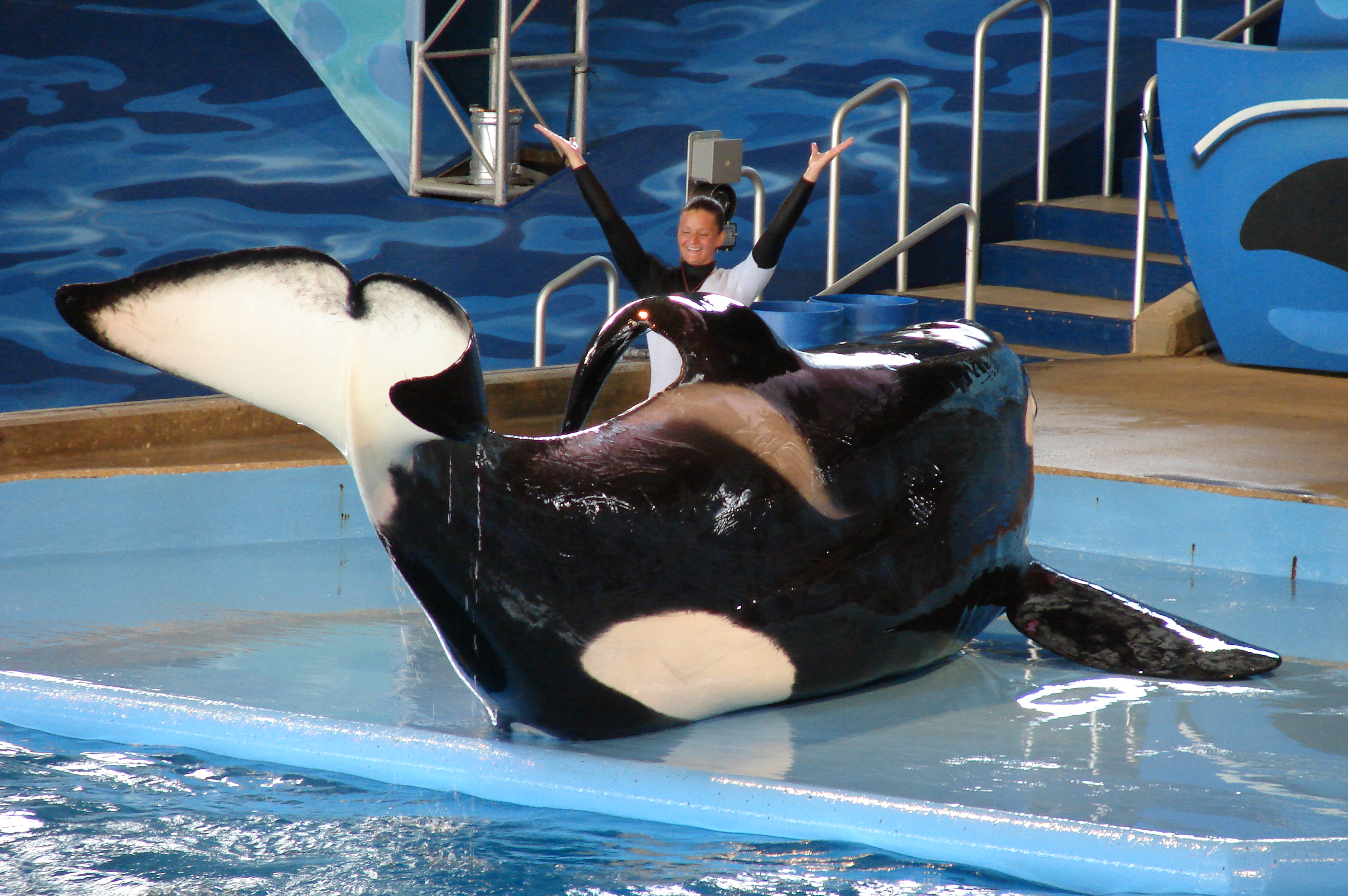 Killer whale (Kyuquot?) during a Shamu performance at SeaWorld San Antonio.